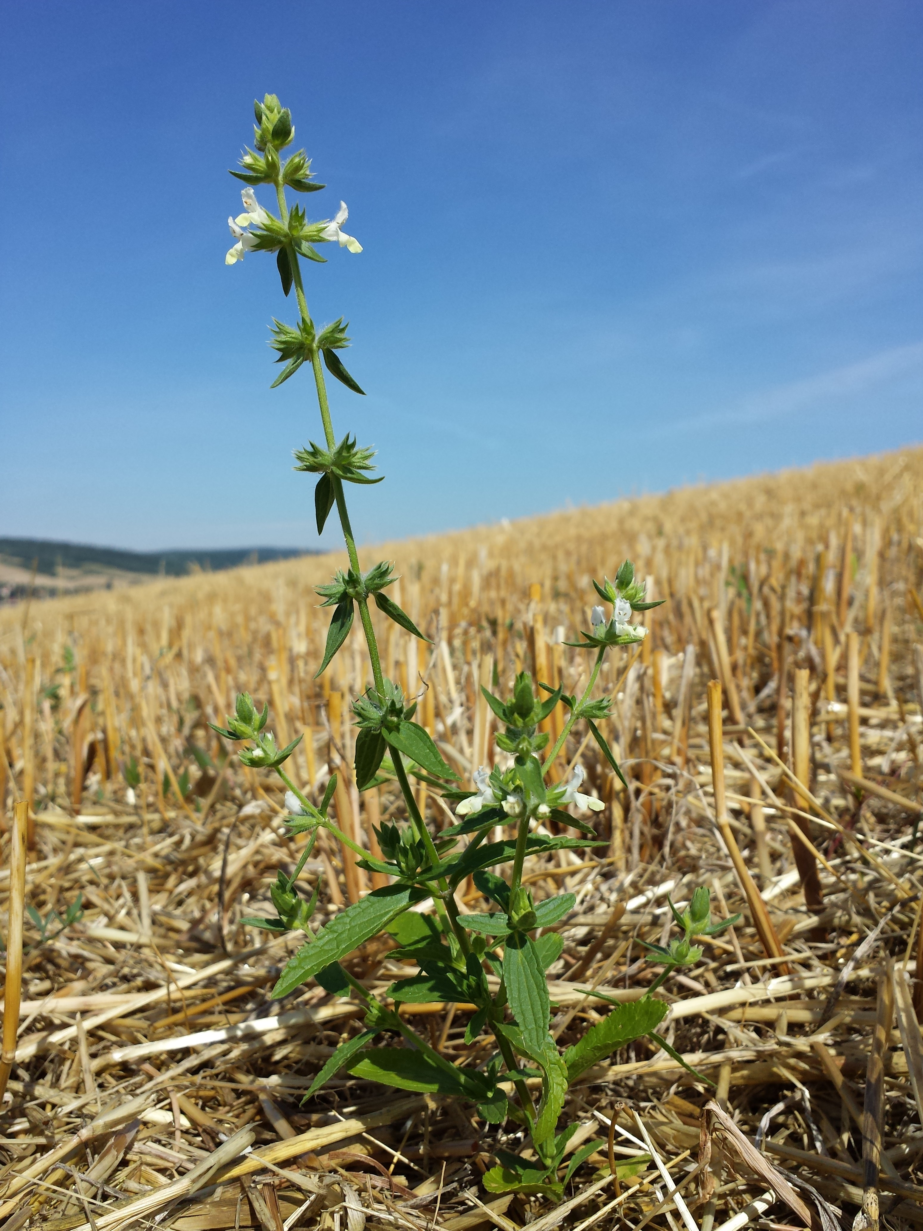 Habitus Taxonym: Stachys annua ss Fischer et al. EfÖLS 2008 ISBN 978-3-85474-187-9 Location: Haulesbergen, district Mistelbach, Lower Austria - ca. 200 m a.s.l. Habitat: field